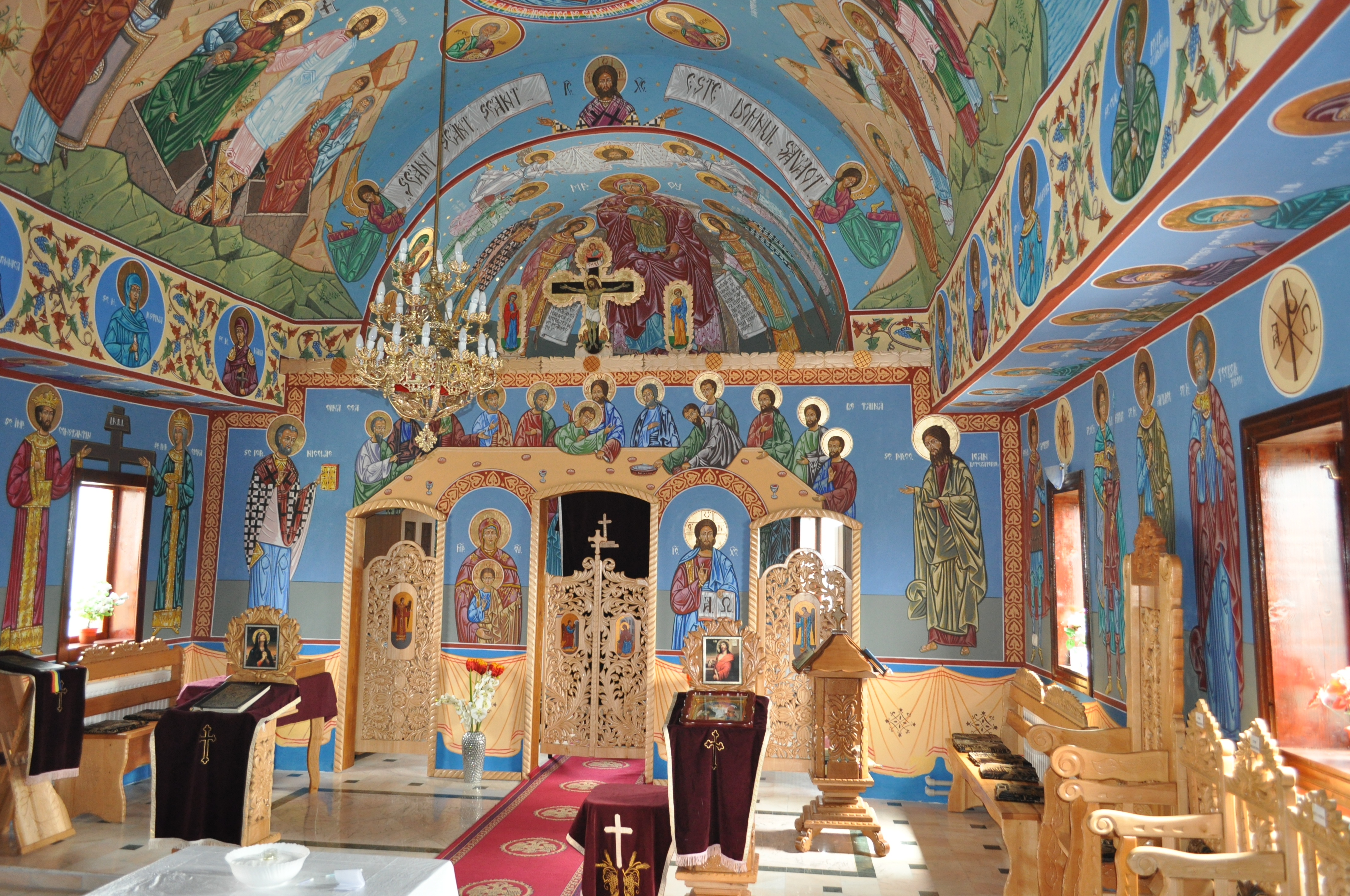 The wooden church in Zăbalț, Arad county, Romania